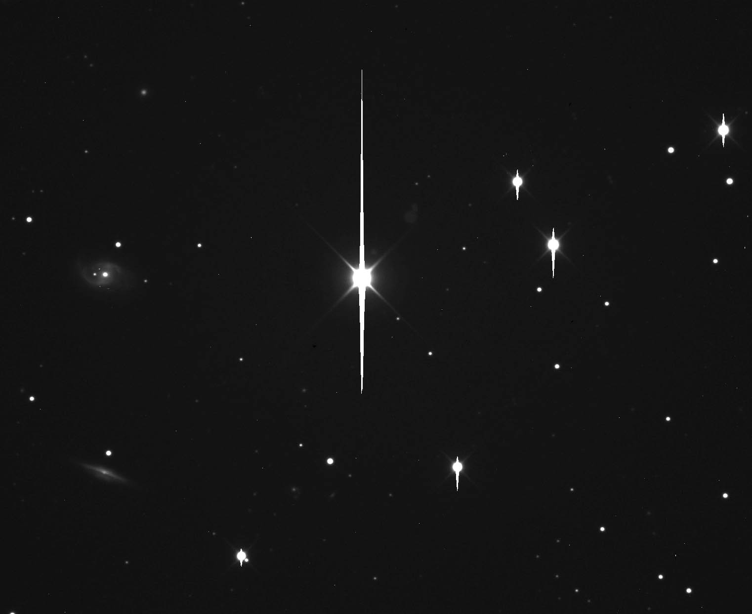 5 minute exposure of asteroid 3 Juno (bright object in center) with a 24" telescope. Juno is apparent magnitude 7.6 in this image taken at 2009-09-22 07:00 UT. Stars brighter than the 11th magnitude are over-exposed resulting in the white streaks. To the left you can also see the galaxies PGC73151 (upper) and PGC73143 (lower). The two galaxies are roughly magnitude 13.5. The star to the right of PGC73151 is about magnitude 17.